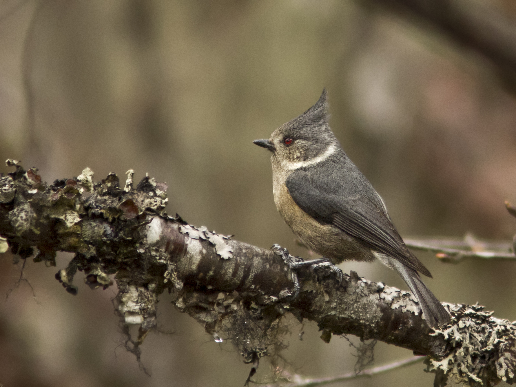 Lophophanes dichrous at Bhutan